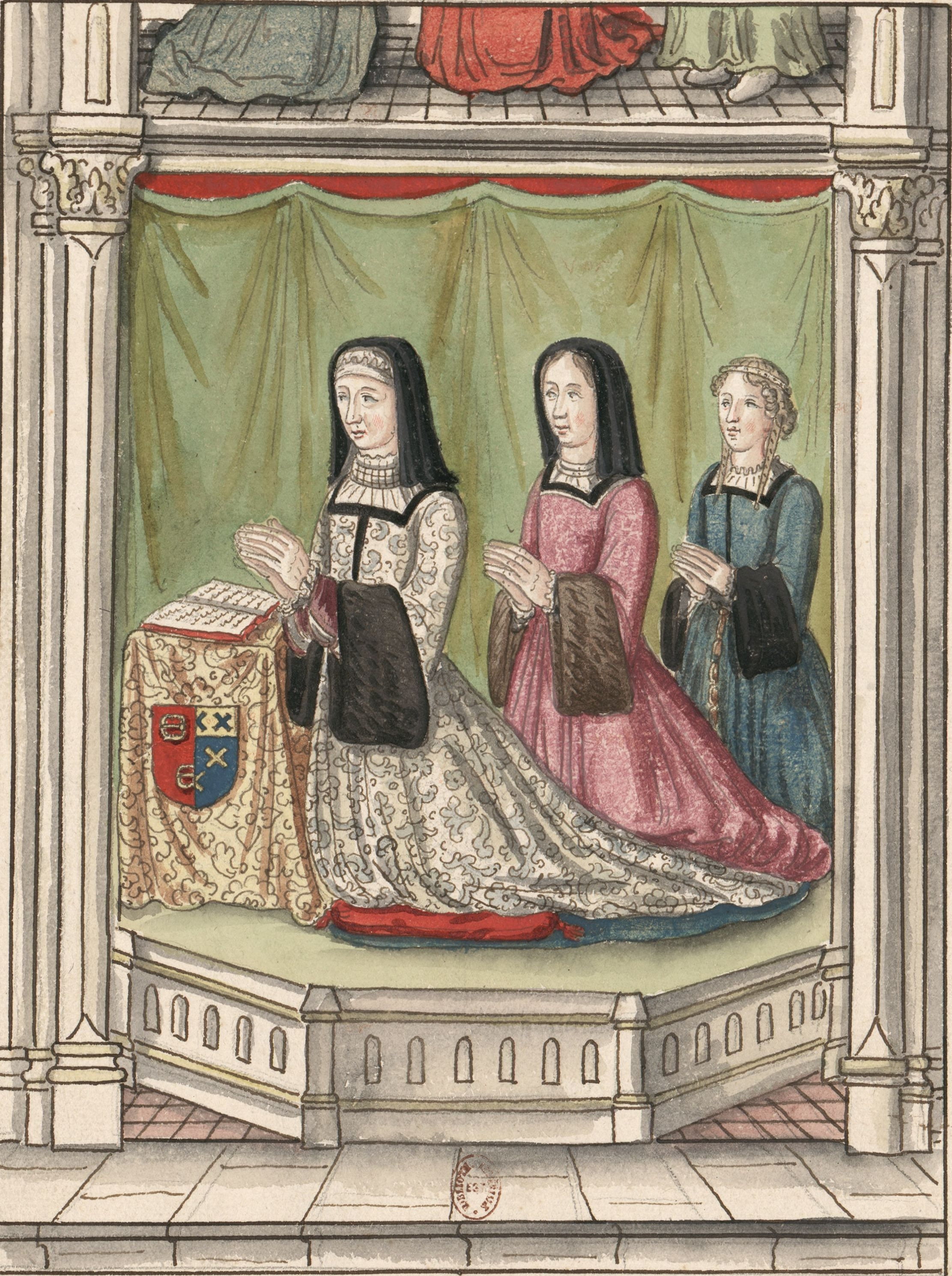 Louis Malet de Graville'wife and daughters (Stained glass)